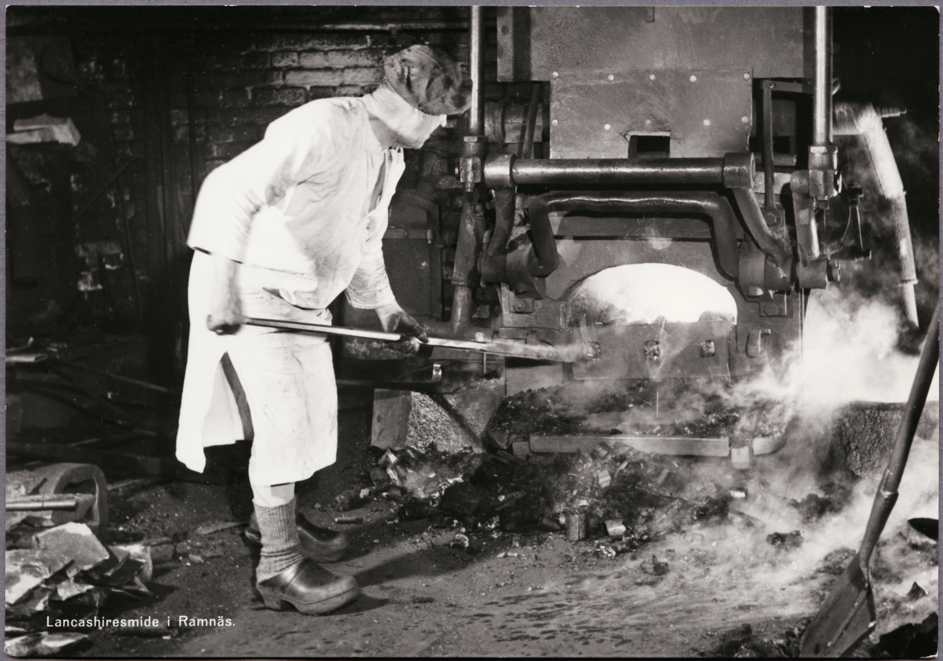 An ironsmith working at the Lancashire hearth in the Lancashire finery forge in Ramnäs, Sweden. The picture is taken in January 1963. The Lancashire process in Ramnäs was closed 1964, and they were then the last Lancashire hearths in the world to be closed.